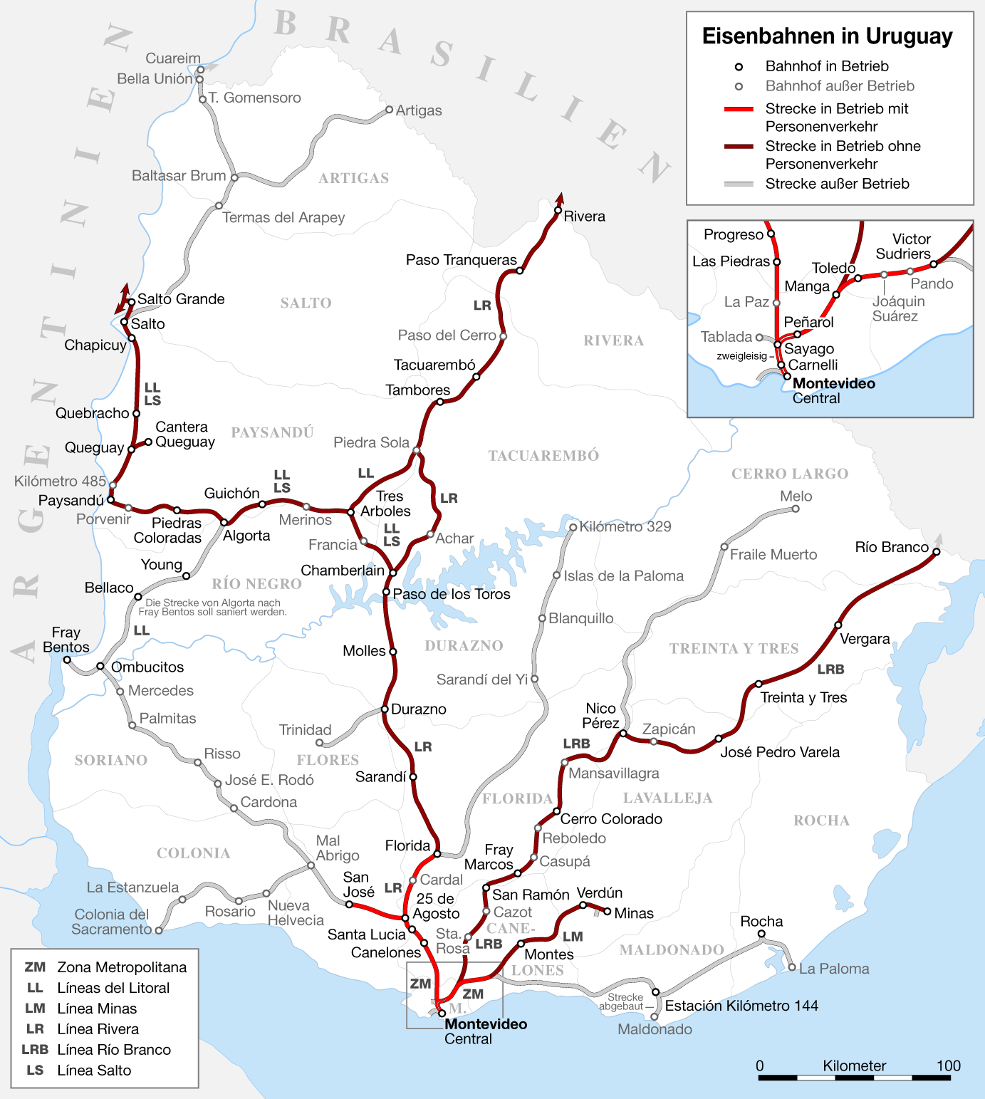 Uruguayan railway network map